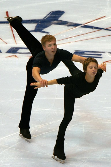 Elena Efaieva and Alexei Menshikov perform a pair spiral at the 2006 Skate America.